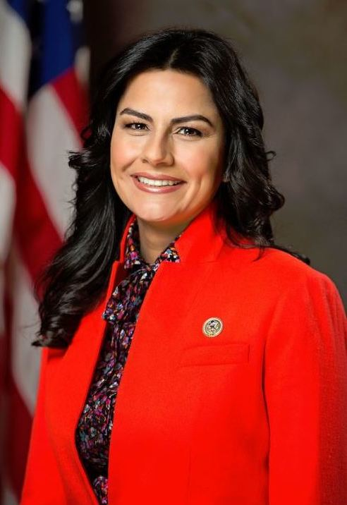 Rep. Nanette Diaz Barragan (D-CA)